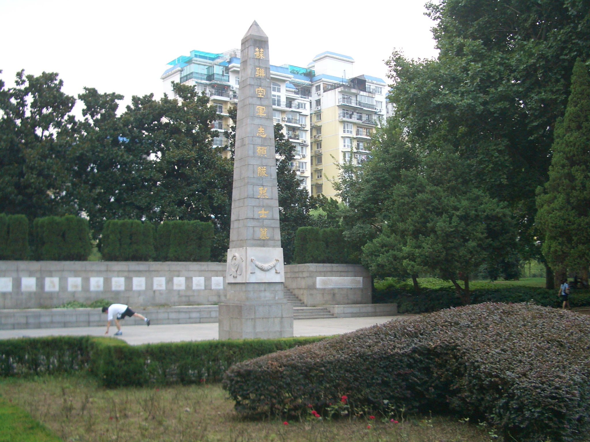 Monument at the graves of the Soviet aviators who died while fighting the Japanese invaders in 1938. (Jiefang Park, Hankou, Wuhan)